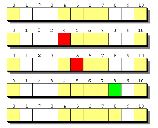 Example of quadratic probing. Yellow = occupied, red = collision, green = place of insertion